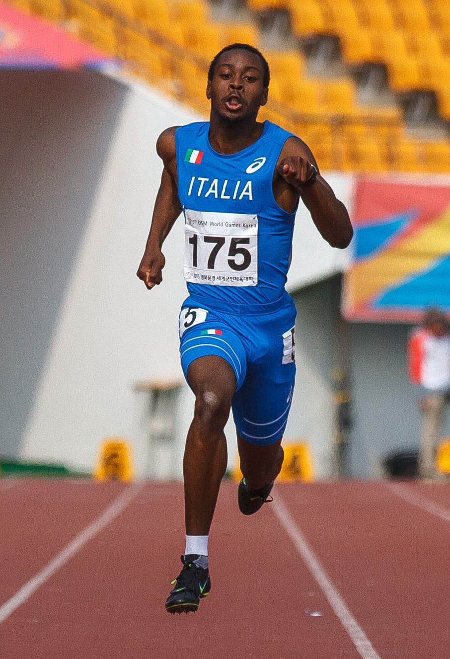 Eseosa Desalu at the 2015 Military World Games . Foto: Sgt Johnson Barros